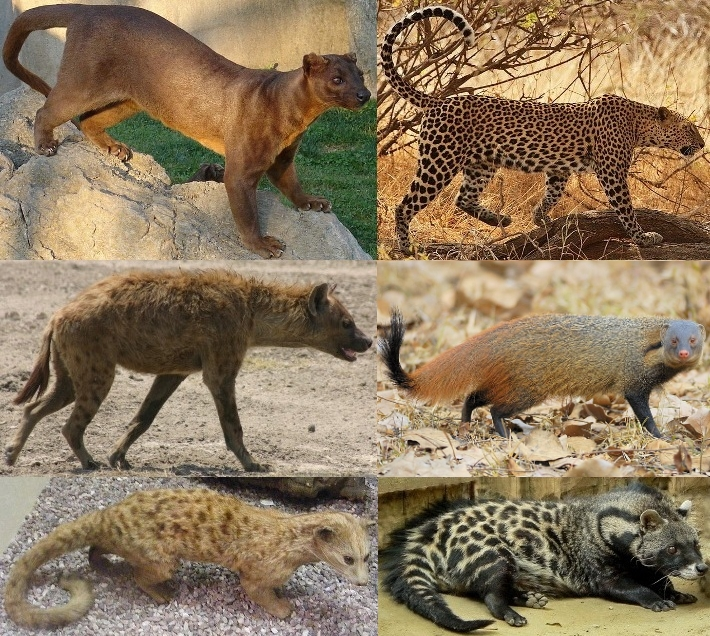 top row, left: Fossa (Cryptoprocta ferox); right: Leopard (Panthera pardus) Second row, left: Spotted hyena (Crocuta crocuta); right: Stripe-necked mongoose (Herpestes vitticollis) third row, left: Two-spotted palm civet (Nandinia binotata); right: African civet (Civettictis civetta)